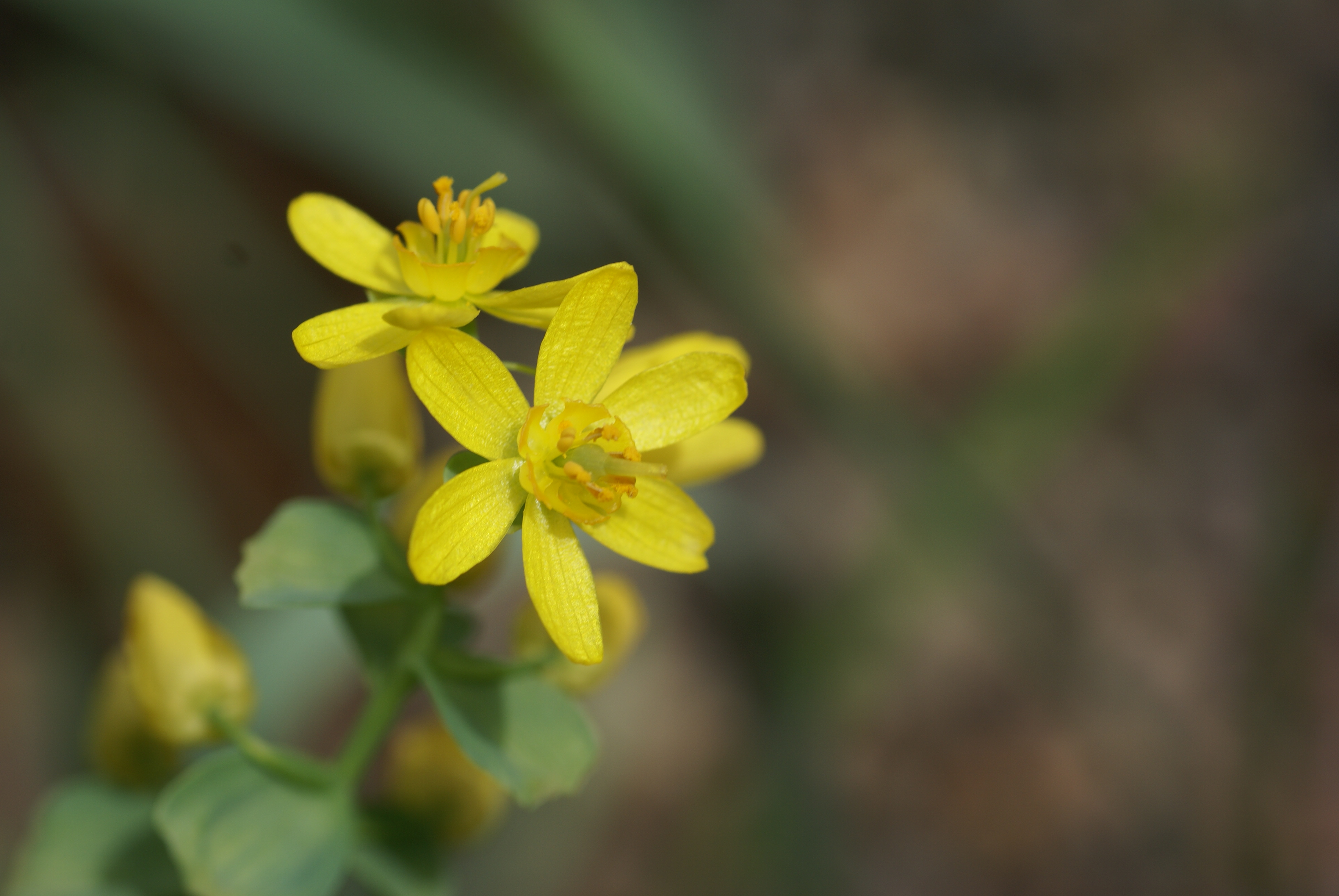 Plant species Gymnospermium altaicum in Göteborgs botaniska trädgård in Gothenburg, Stockholm